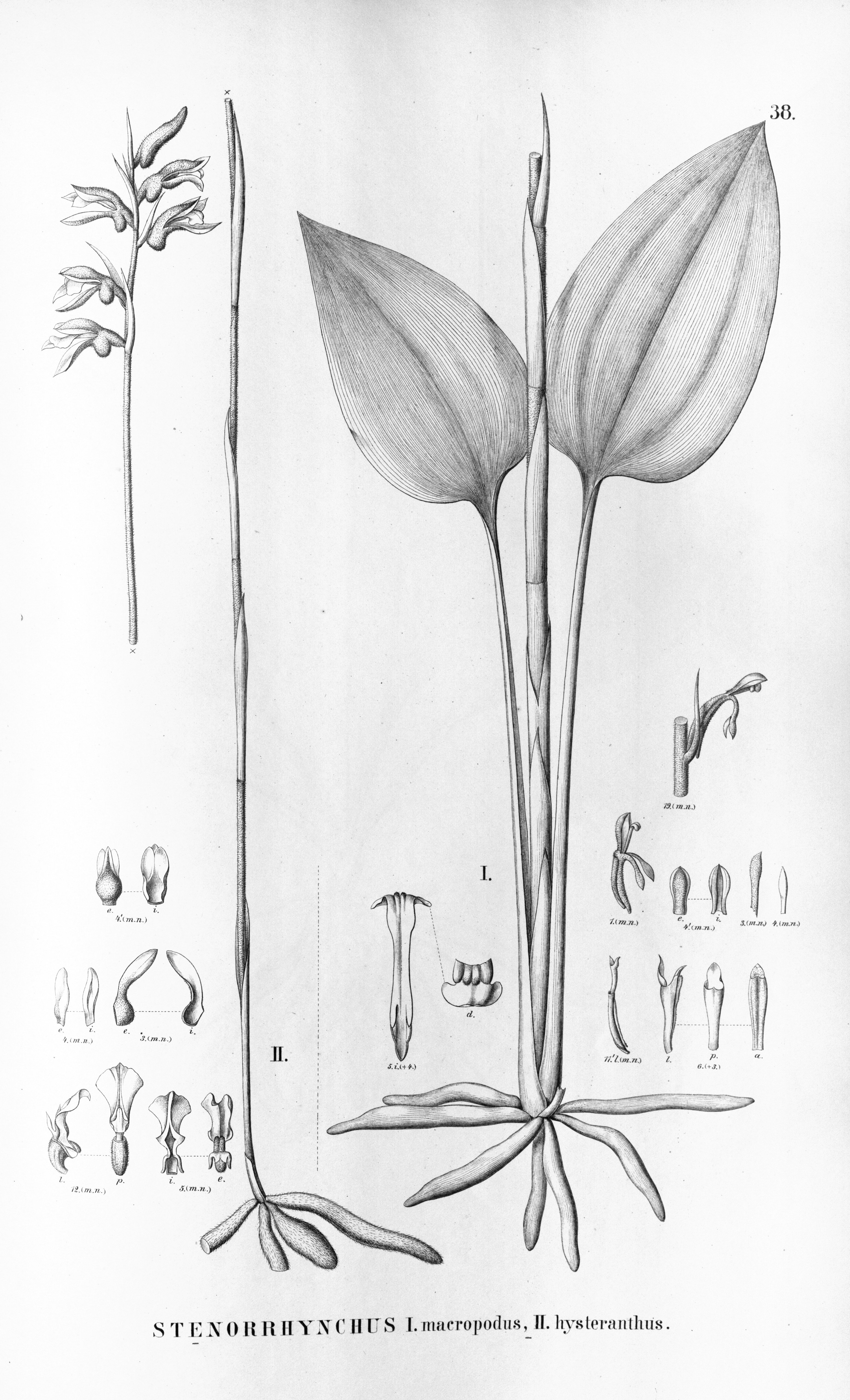 Illustration of: I. Pelexia macropoda (as syn. Stenorrhynchos macropodum, spelled by Cogniaux as Stenorrhynchus macropodus) II. Pelexia hysterantha (as syn. Stenorrhynchos hysteranthum, spelled by Cogniaux as Stenorrhynchus hysteranthus)